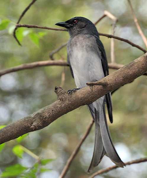 White-bellied Drongo Dicrurus caerulescens at Sindhrot in Vadodara District of Gujarat, India.